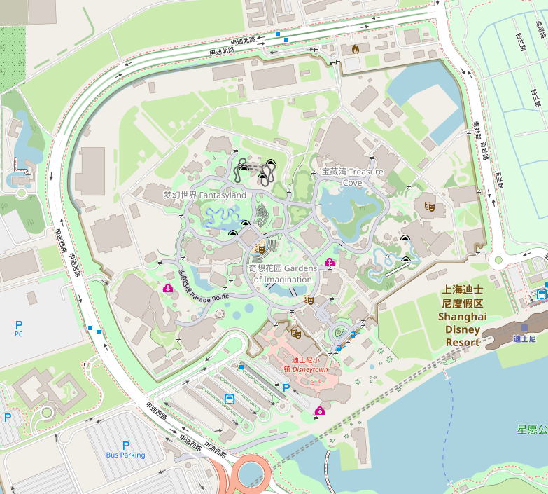 OSM map of Shanghai Disneyland